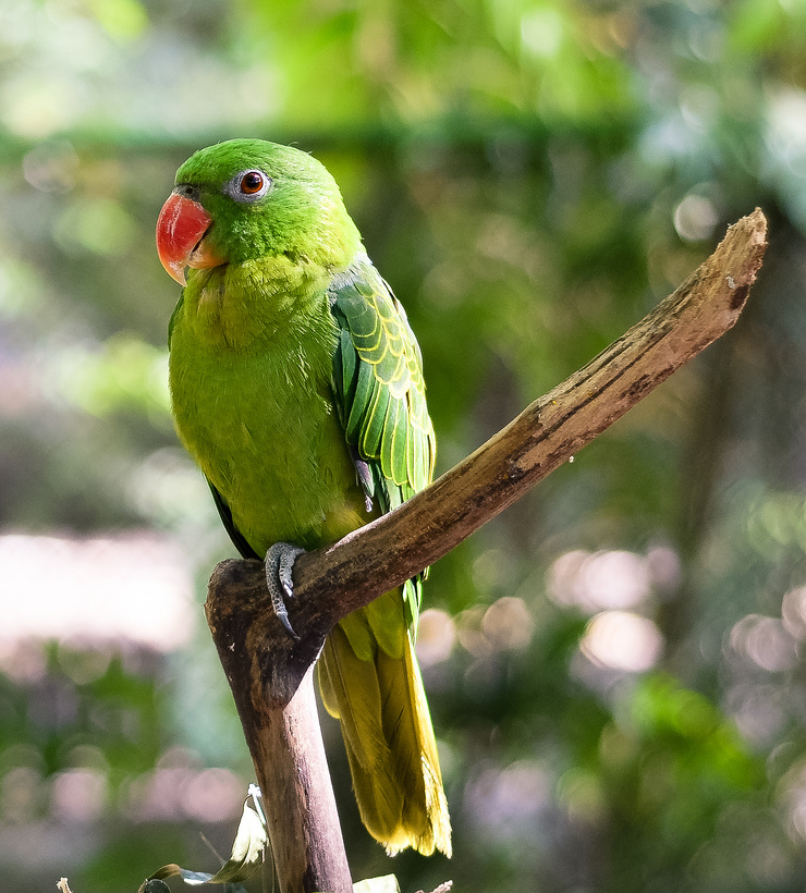 An adult male Blue-backed Parrot. It is standing on one foot on a branch.